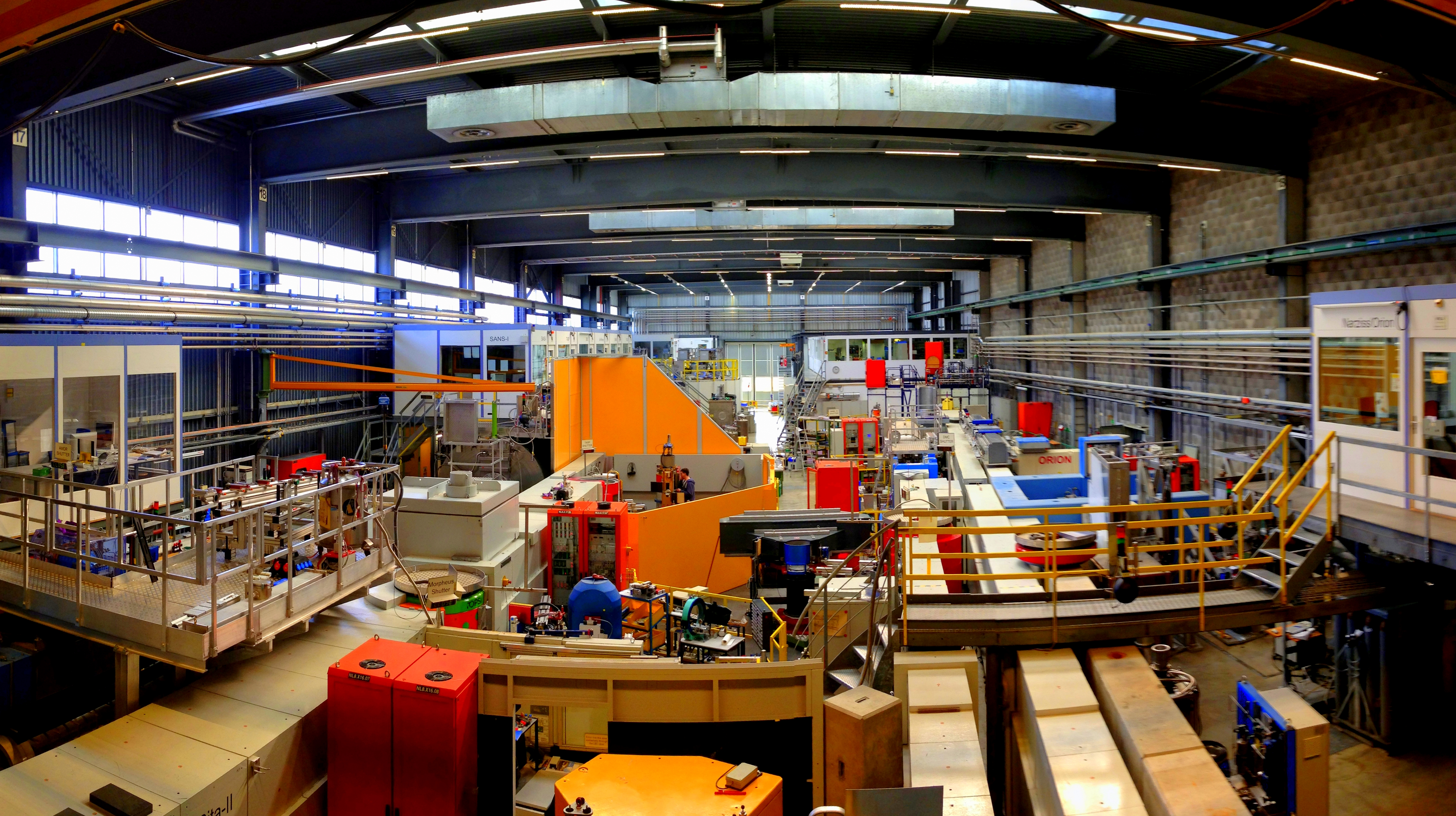 Spallation Neutron Source, PSI